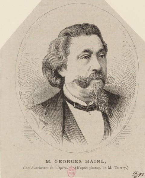 French dirigent François George-Hainl (1807–1873)